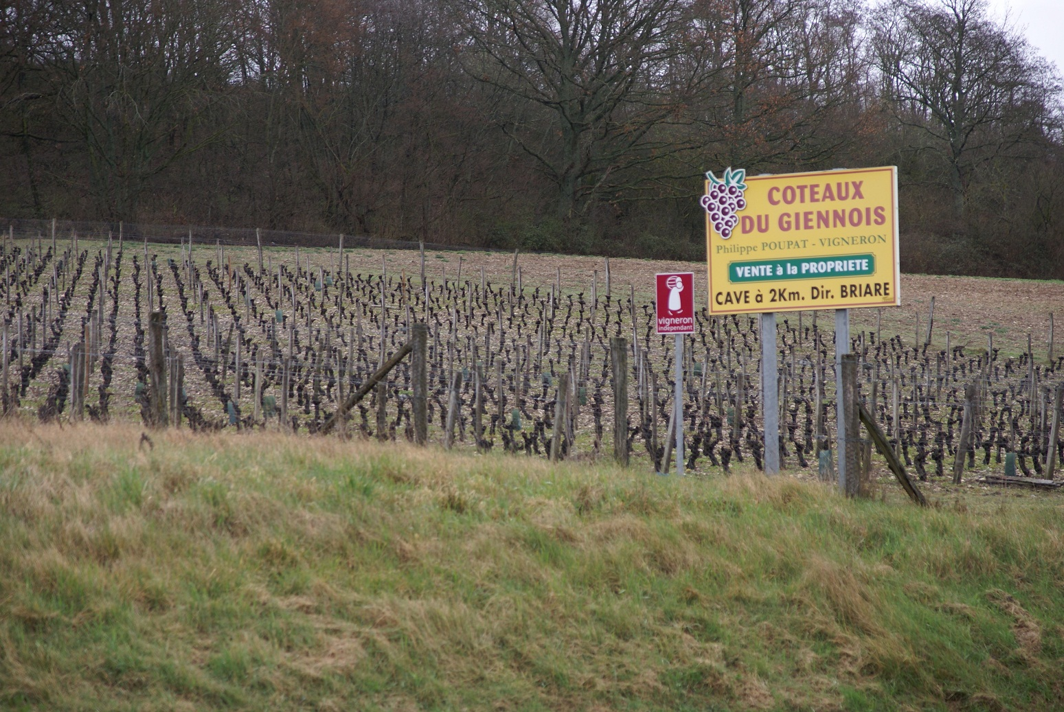 Vineyard (AOC coteaux-du-giennois) at Briare, Loiret, Centre, France